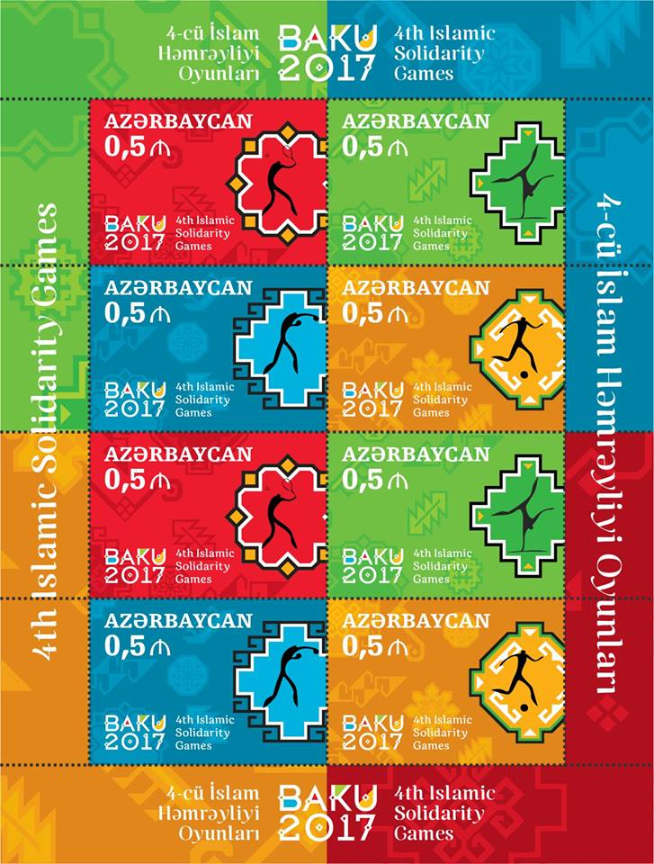 4th Islamic Solidarity Games. N 1297 - 50 qapik. Tennis N 1298 - 50 qapik. Artistic gymnastics N 1299 - 50 qapik. Box N 1300 - 50 qapik. Footbal